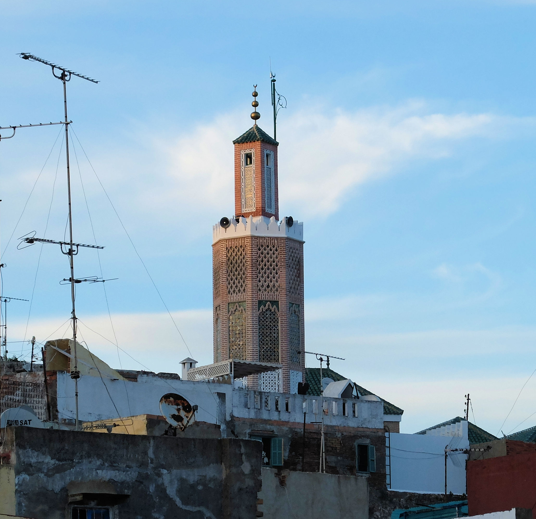 Minaret of the Kasbah Mosque in Tangier, seen from a medina rooftop.